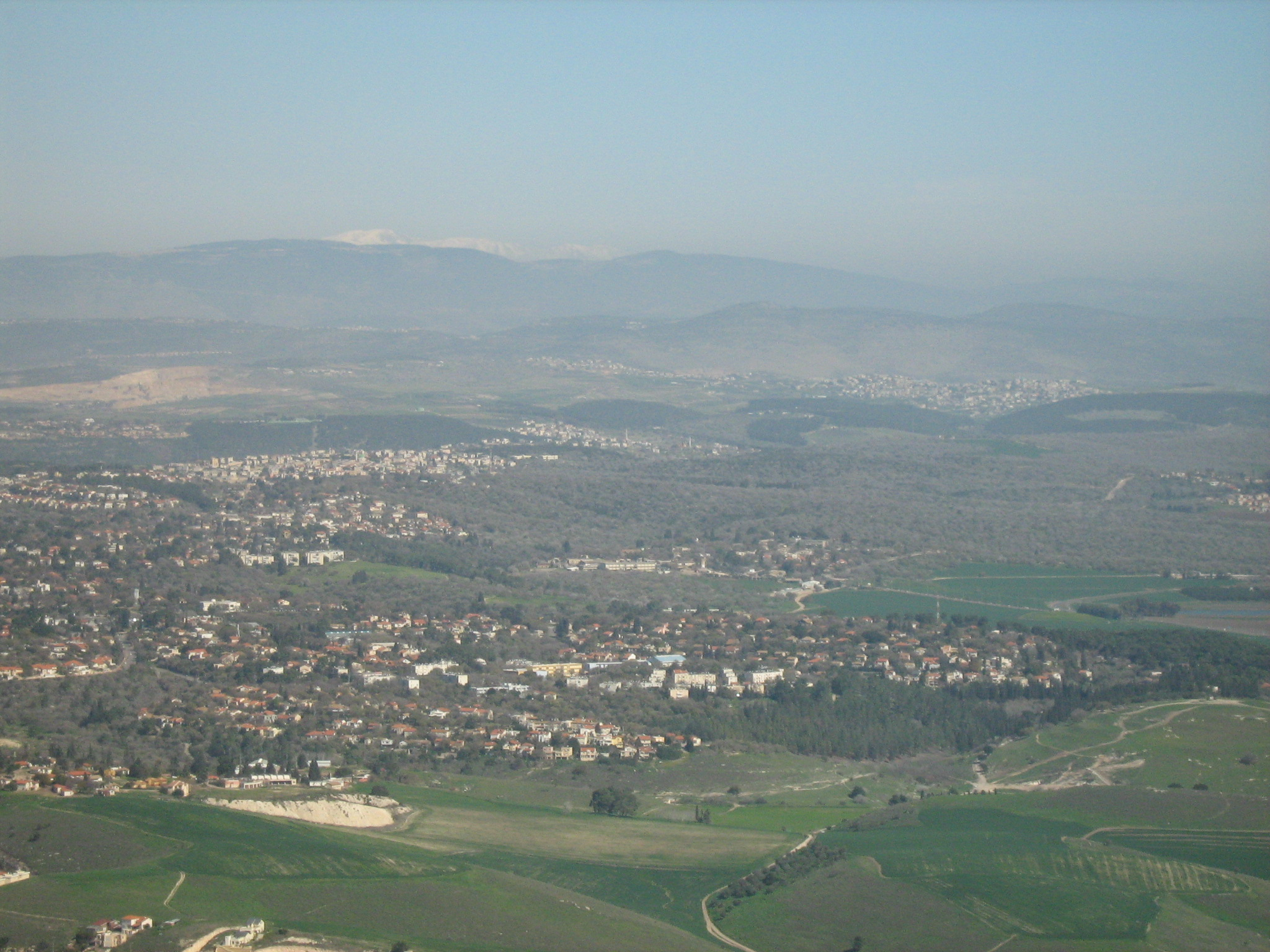 המראה מגג המנזר בקרן הכרמל, in the front of the picture and to the left is Kiryat Tivon. Behind Kiryat Tivon in the middle of the picture is Alonim. A little more behind is Bamat Tivon with two mosques.